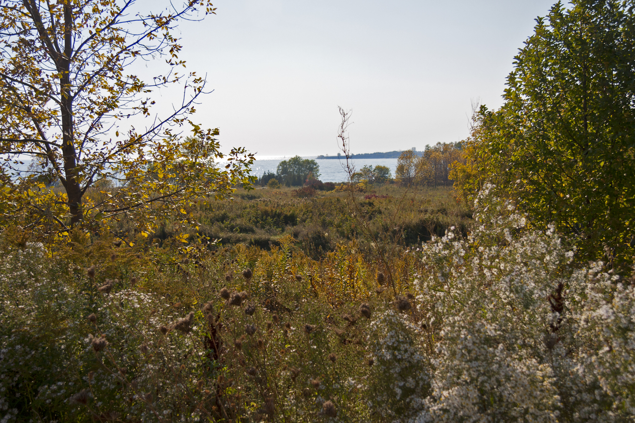 A view of part of the site of Camp X looking towards Lake Ontario. Photographed in the afternoon of Sunday, October 9, 2011.